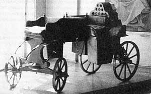 The reconstruction of the so-called "self-running carriage" invented by a Russian peasant Leonty Shamshurenkov in the first half of 18th century, a precursor to both bicycle and automobile.